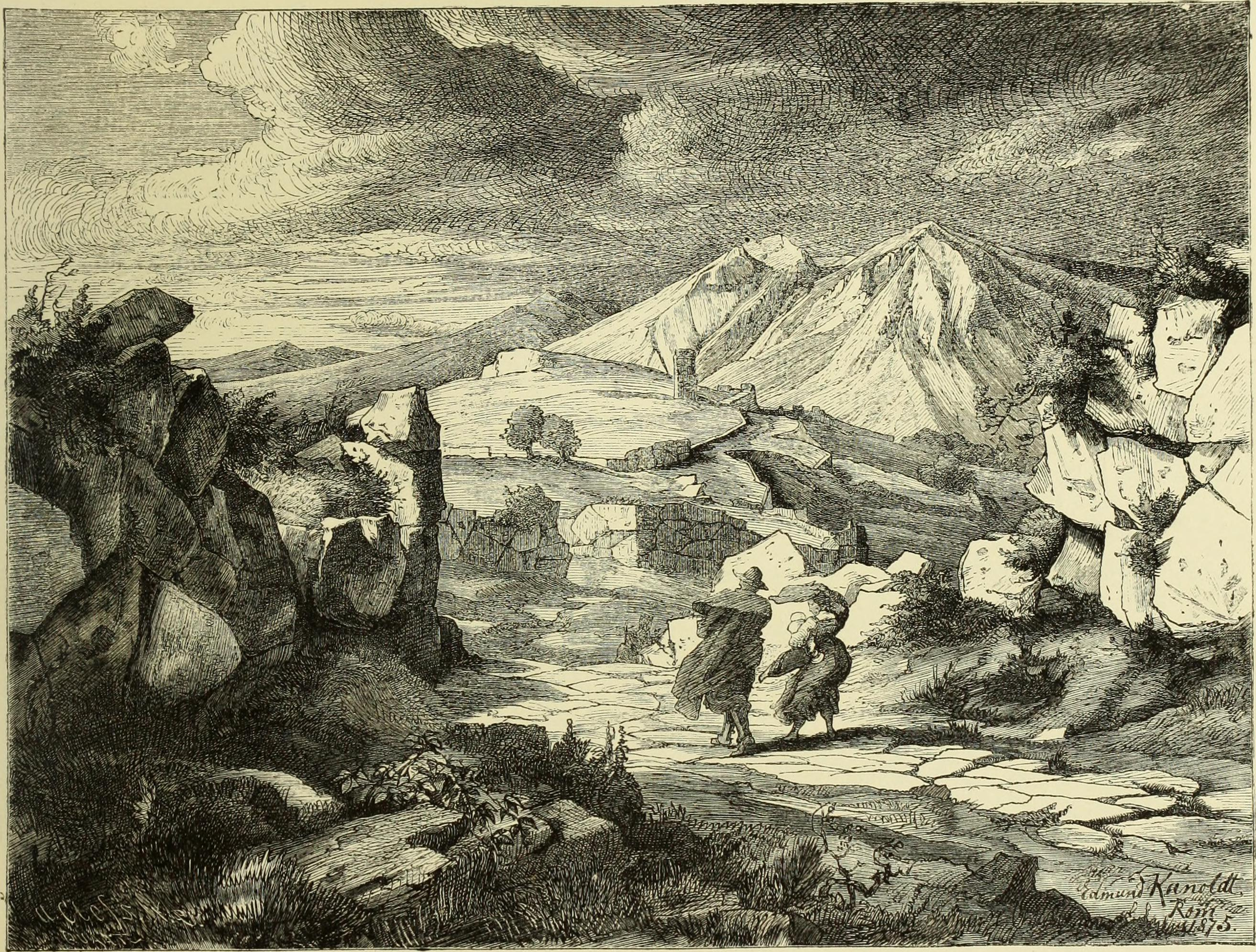 Title: Italy from the Alps to Mount Etna Year: 1877 (1870s) Authors: Stieler, Karl, 1842-1885 Cavagna Sangiuliani di Gualdana, Antonio, conte, 1843-1913, former owner. IU-R Paulus, Eduard, 1837-1907 Kaden, Woldemar, 1838-1907 Trollope, Frances Eleanor, d. 1913 Trollope, Thomas Adolphus, 1810-1892 Subjects: Publisher: London : Chapman and Hall Text Appearing Before Image: FALL OF THE LIRIS NEAR ISOLA. FROM THE GRAN SASSO DITALIA TO VESUVIUS. 347 handsome, and well able to bear a good share of their countrys fate on their broadshoulders. But for this, it might be well that the earthquake should knock down a fewmore churches ! For Aquila is still, as in the days when it took decided part with thePope, a remarkably pious city. The numerous churches,—amongst which Santa Maria di Text Appearing After Image: ALBA. Collemaggio, Santa Maria del Soccorso, San Bernardino di Siena, San Domenico, and fouror five others, are the most interesting,—leave no room for industrial buildings. If therewere not a little traffic in garden produce and cattle, there would be absolutely no livingat all ! A short walk carries us away from the poverty-stricken present, to classic antiquity, afragment of which remains in the ruins on yonder sunburnt hill. The Aternus flowsthrough the valley, and this was once Amiternum, the beautiful city of the Sabines, nowre-christened San Vittorino. What an indigent saint he must be,—or what an ascetic !For the handful of houses which bear his name consist of mud, and broken fragments ofantiquity : and the narrow streets are carpeted by manure, a foot deep. In the midst ofthe dung-heaps lies a colossal, headless Minerva, and the street pigs rub themselves againstthe folds of her drapery. Down the valley the foundations still remain of the amphi-theatre, whose arena is no